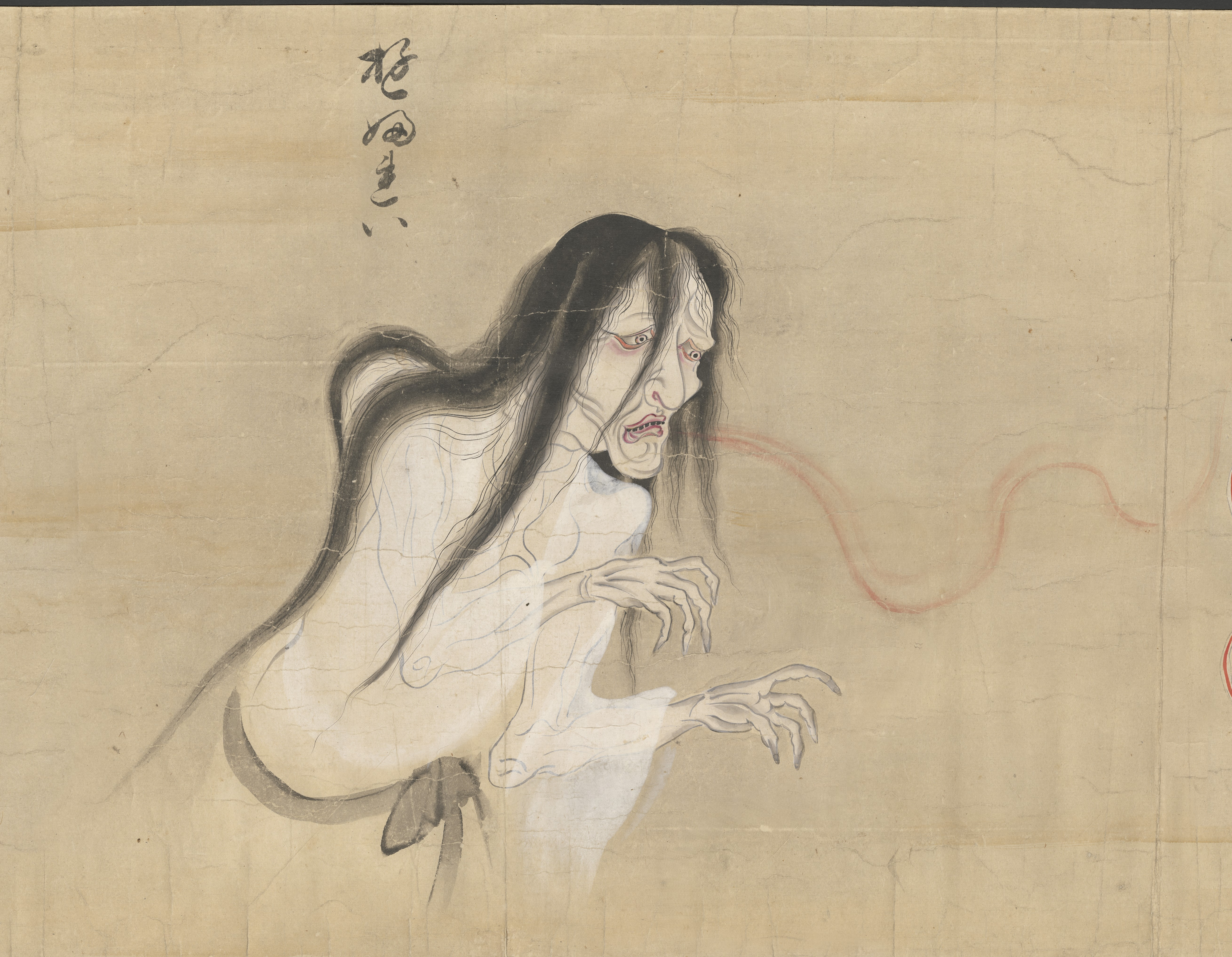 Yūrei ゆふれい from Bakemono no e (化物之繪, c. 1700), Harry F. Bruning Collection of Japanese Books and Manuscripts, L. Tom Perry Special Collections, Harold B. Lee Library, Brigham Young University.